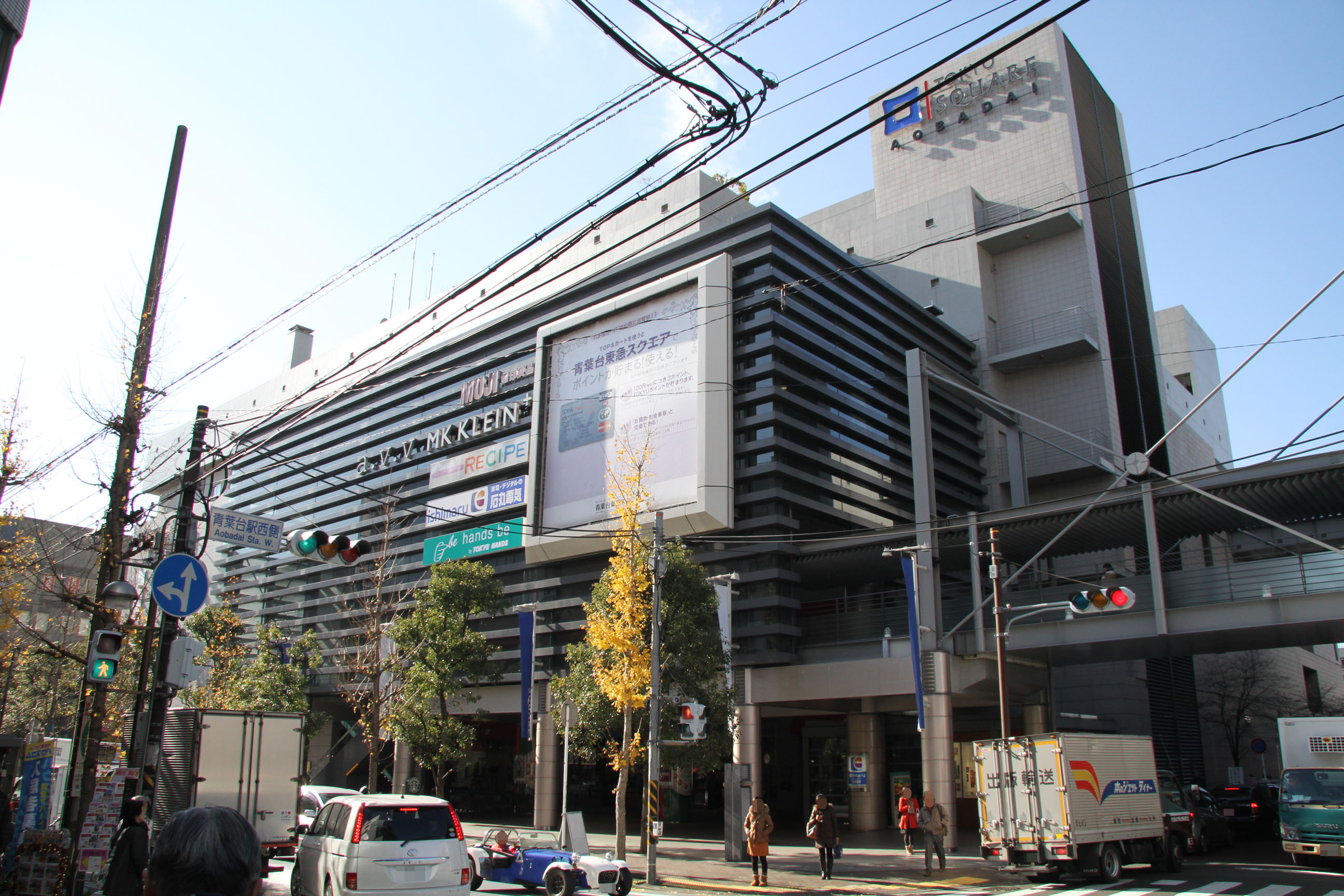 Aobadai Tokyu Square (S-1 building), Aoba-ku, Yokohama, Kanagawa, Japan